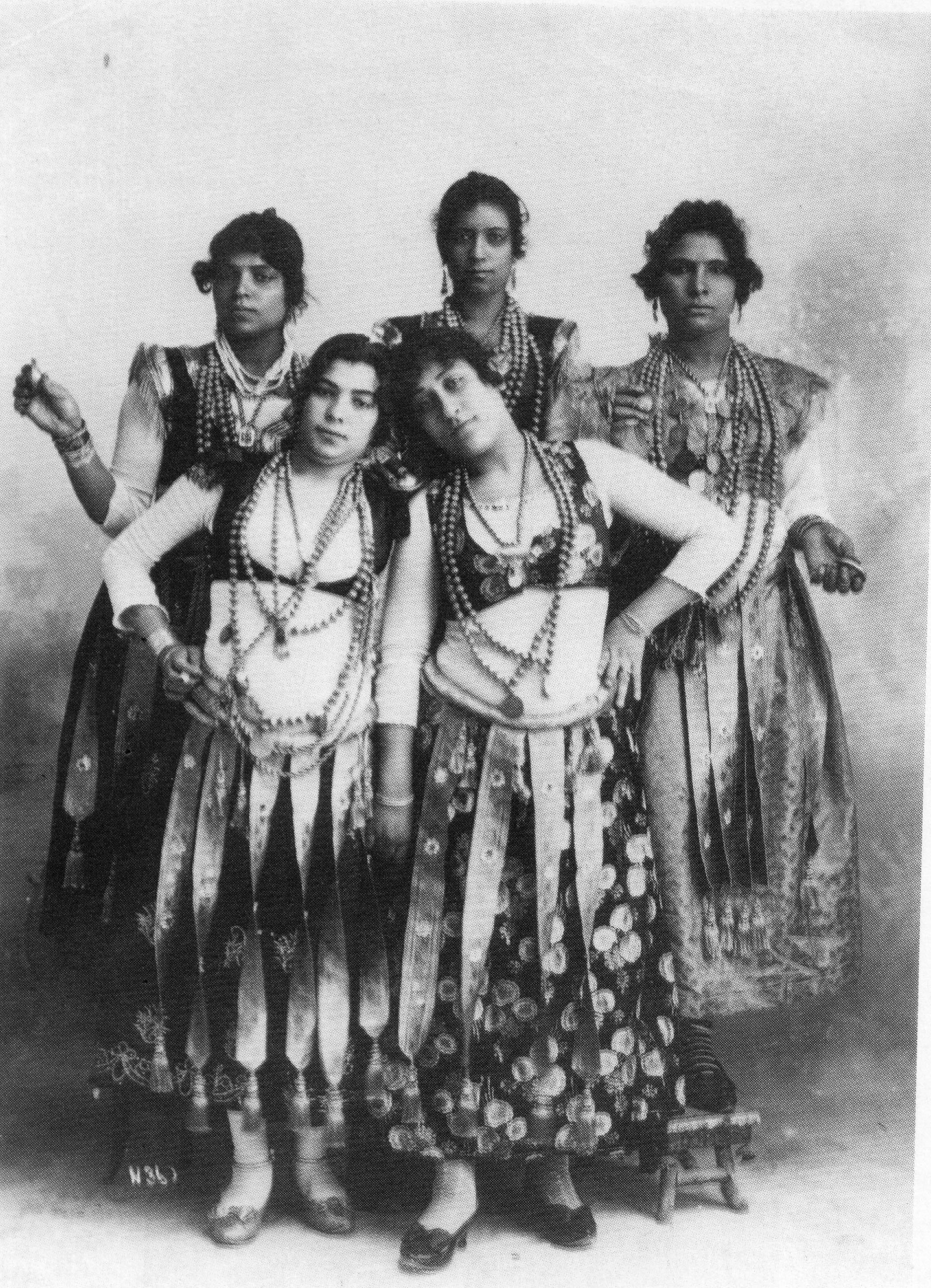 A scanned image of a postcard showing Egyptian Ghawazi dancers, circa 1880.